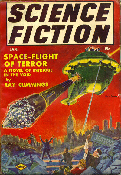 January 1941 cover of the Science Fiction magazine, volume 2, issue 3.